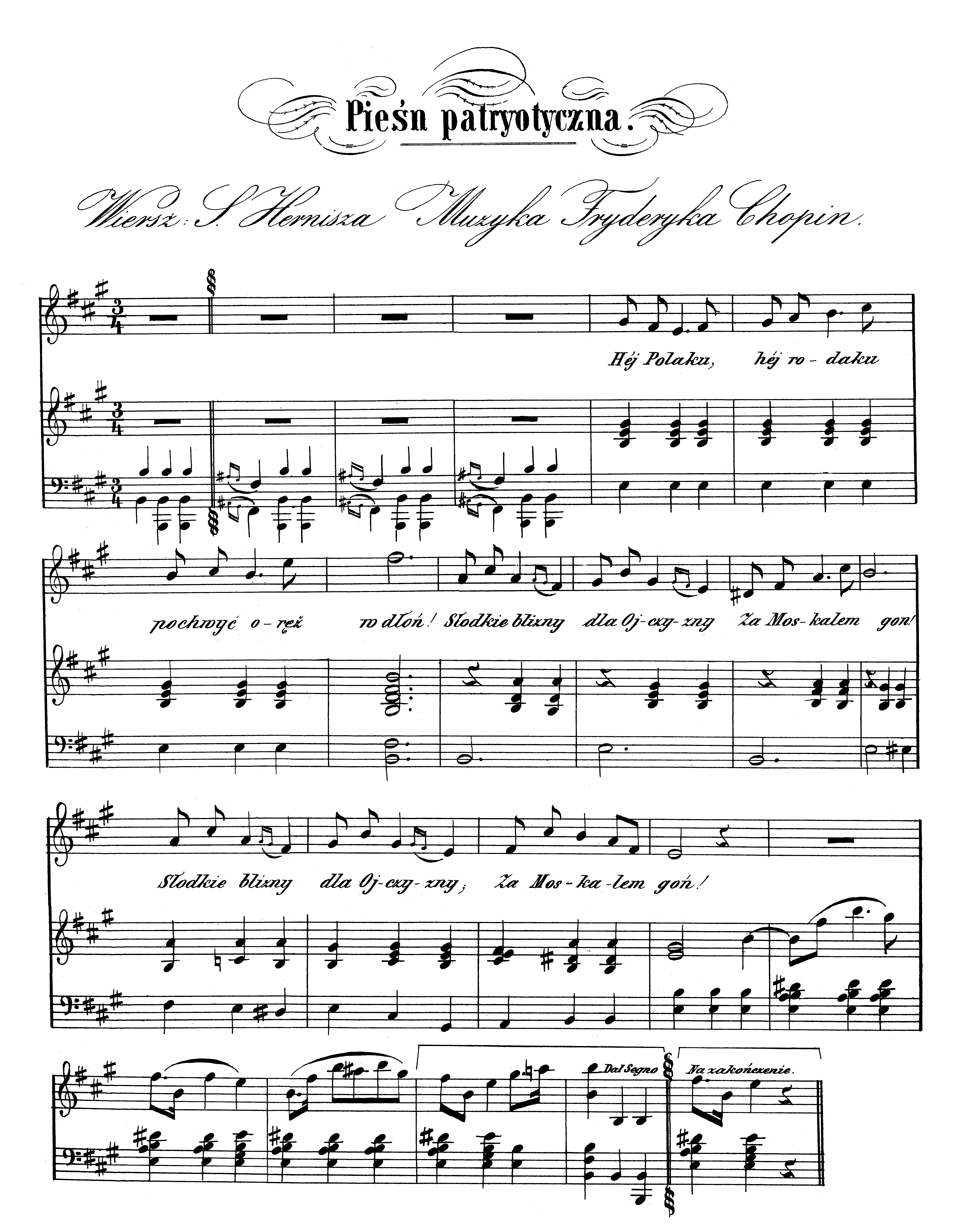 Polish patriotic song (music by F. Chopin)